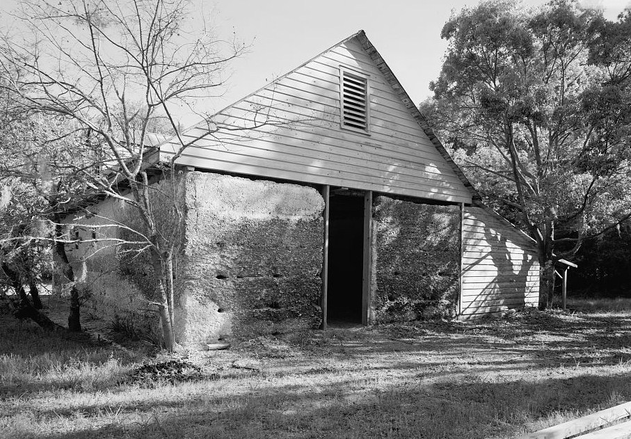 Barn, Frogmore Manor, Seaside Road, St. Helena Island (Beaufort, South Carolina) cropped This file comes from the Historic American Buildings Survey (HABS), Historic American Engineering Record (HAER) or Historic American Landscapes Survey (HALS). These are programs of the National Park Service established for the purpose of documenting historic places. Records consist of measured drawings, archival photographs, and written reports. When reusing please credit: Library of Congress, Prints & Photographs Division, SC-864-1 This tag does not indicate the copyright status of the attached work. A normal copyright tag is still required. See Commons:Licensing for more information. English | +/− This work is in the public domain in the United States because it is a work prepared by an officer or employee of the United States Government as part of that person’s official duties under the terms of Title 17, Chapter 1, Section 105 of the US Code. See Copyright. Note: This only applies to original works of the Federal Government and not to the work of any individual U.S. state, territory, commonwealth, county, municipality, or any other subdivision. This template also does not apply to postage stamp designs published by the United States Postal Service since 1978. (See § 313.6(C)(1) of Compendium of U.S. Copyright Office Practices). It also does not apply to certain US coins; see The US Mint Terms of Use. This file has been identified as being free of known restrictions under copyright law, including all related and neighboring rights. Object location32° 21′ 32″ N, 80° 33′ 40″ W